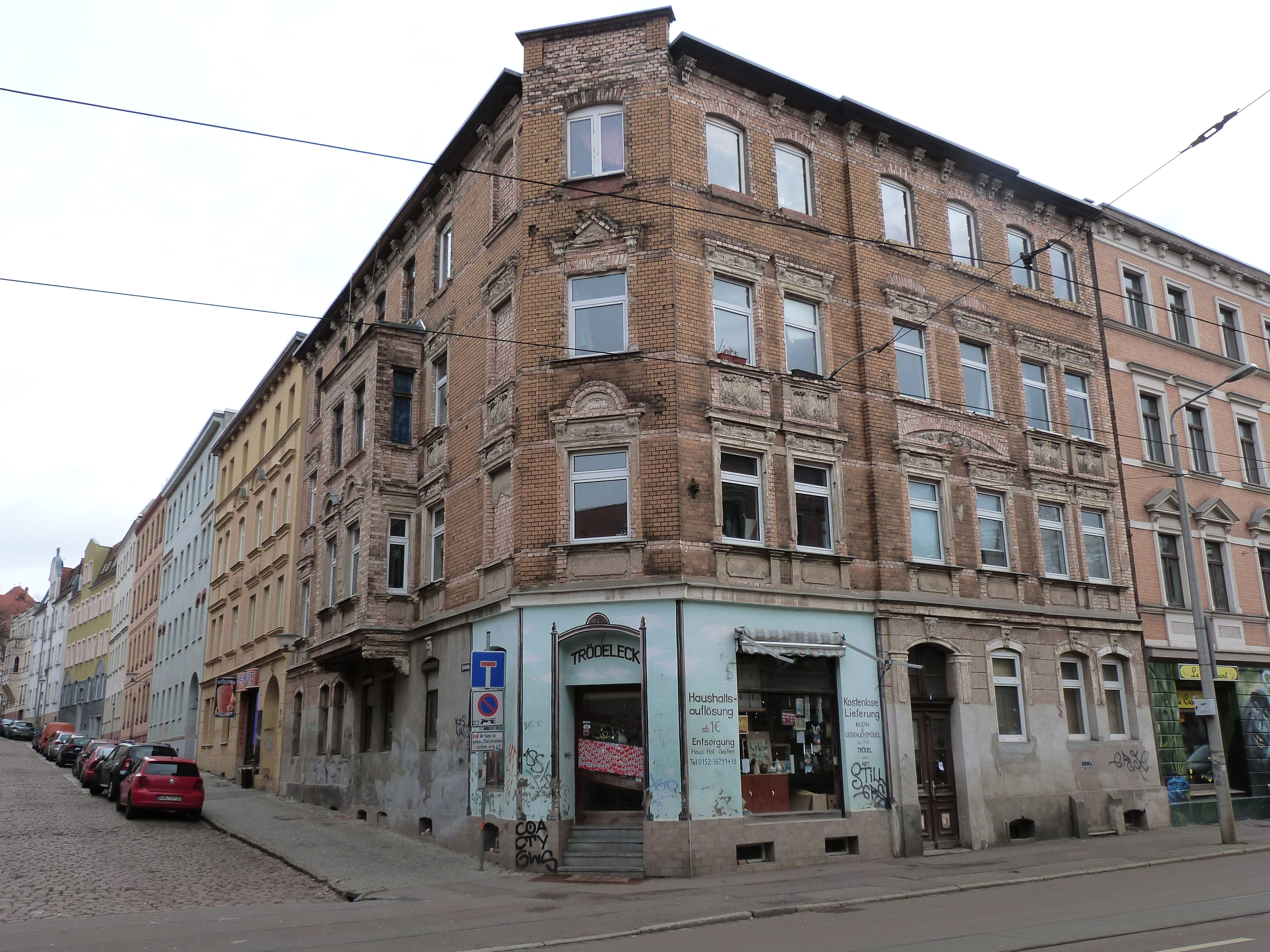 Burgstrasse No. 5, Corner Fichtestrasse Halle (Saale)